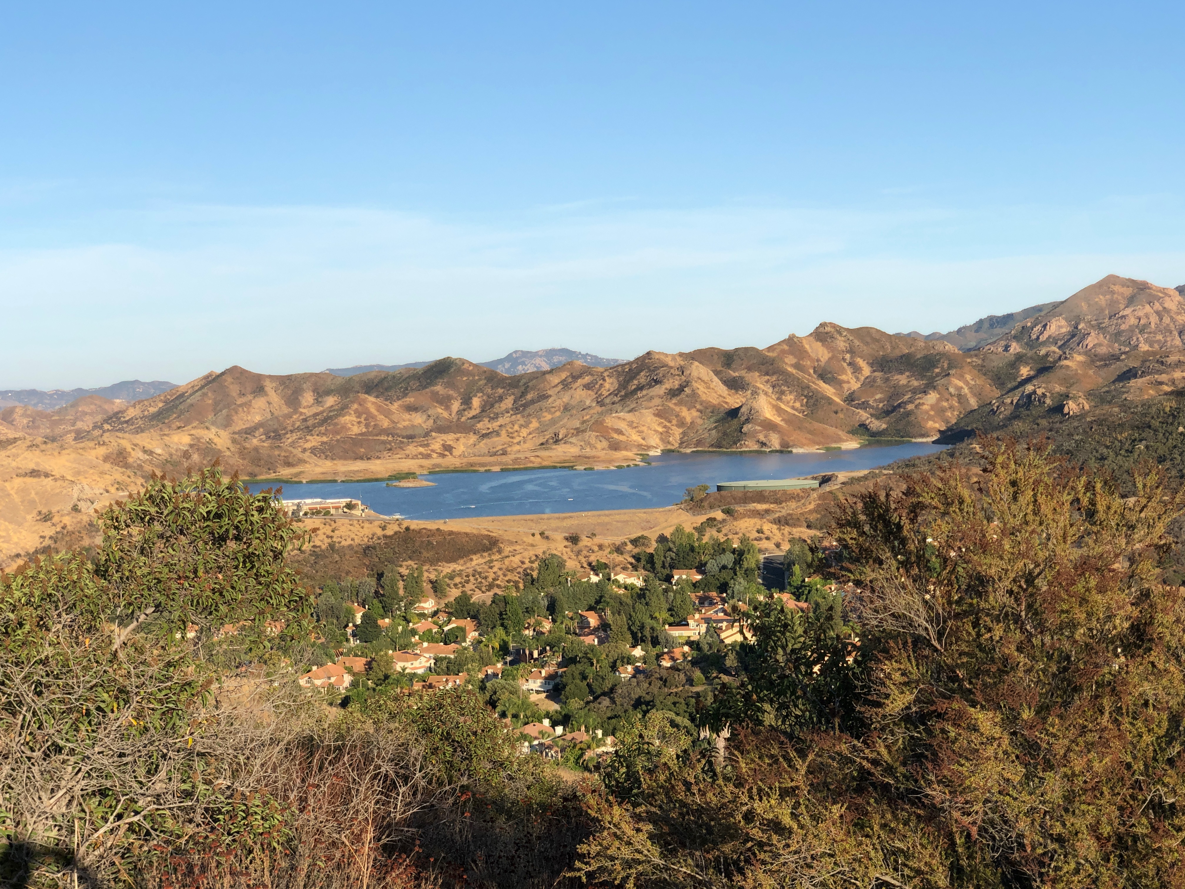 View of Las Virgenes Reservoir in Westlake Village, CA